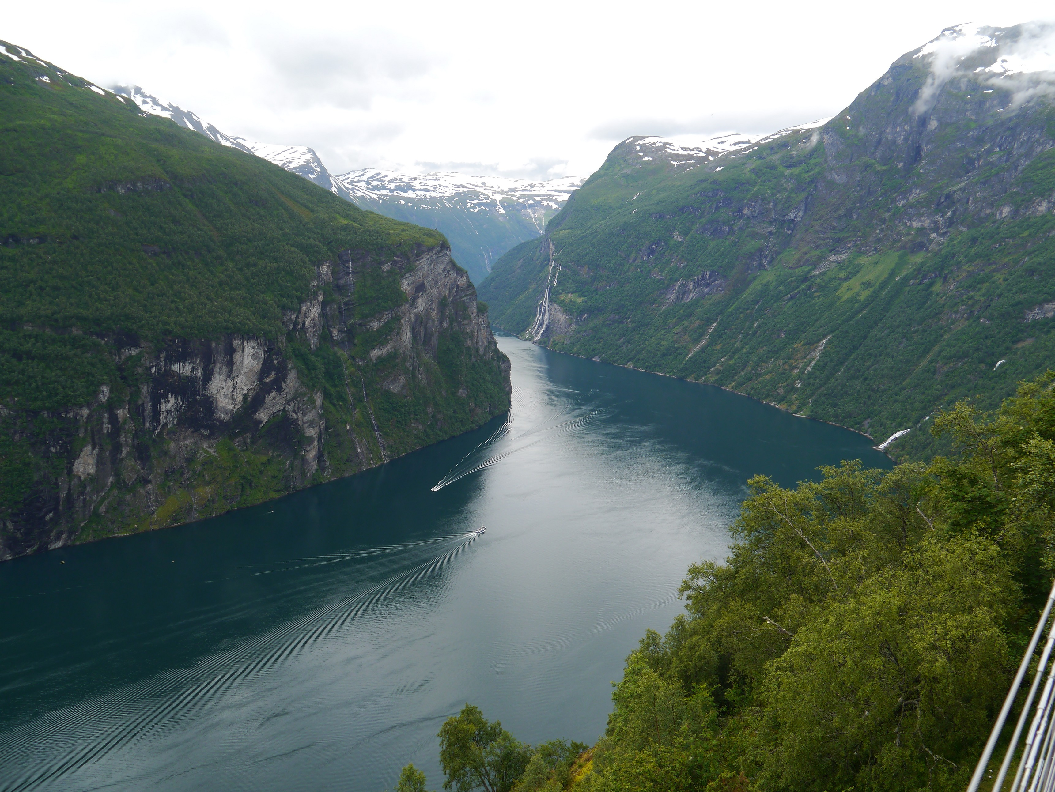 Geirangerfjorden, Möre og Romsdal County, Central Norway